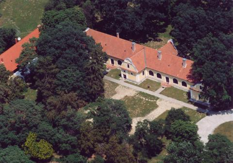 Csombárd, Hungary, aerial photography